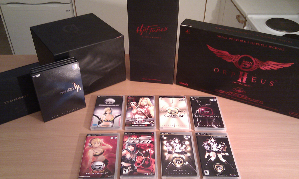 Picture of all DJMAX titles consumer can get on their hands. It includes all the Portable titles, and the DJMAX trilogy. Some of these are limited edition packages.